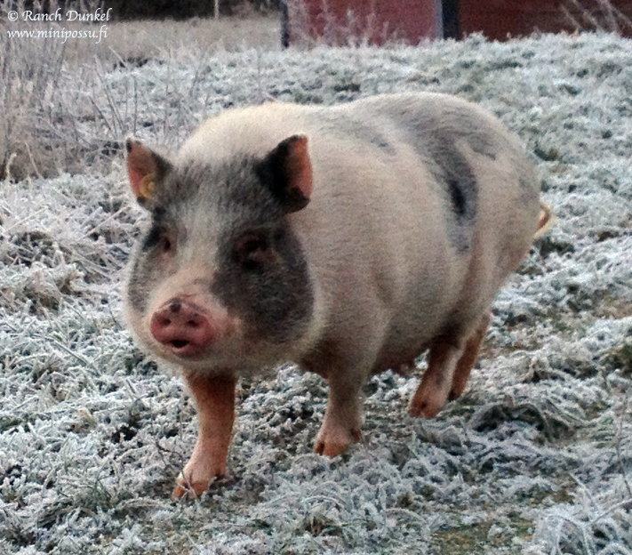 Minipig (not the same breed know as Potbelly Pig) roaming around in the wintertime.